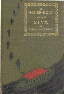 This is a scan of the front cover for "A House-Boat on the Styx" (article, text), written by John Kendrick Bangs and published in 1895.